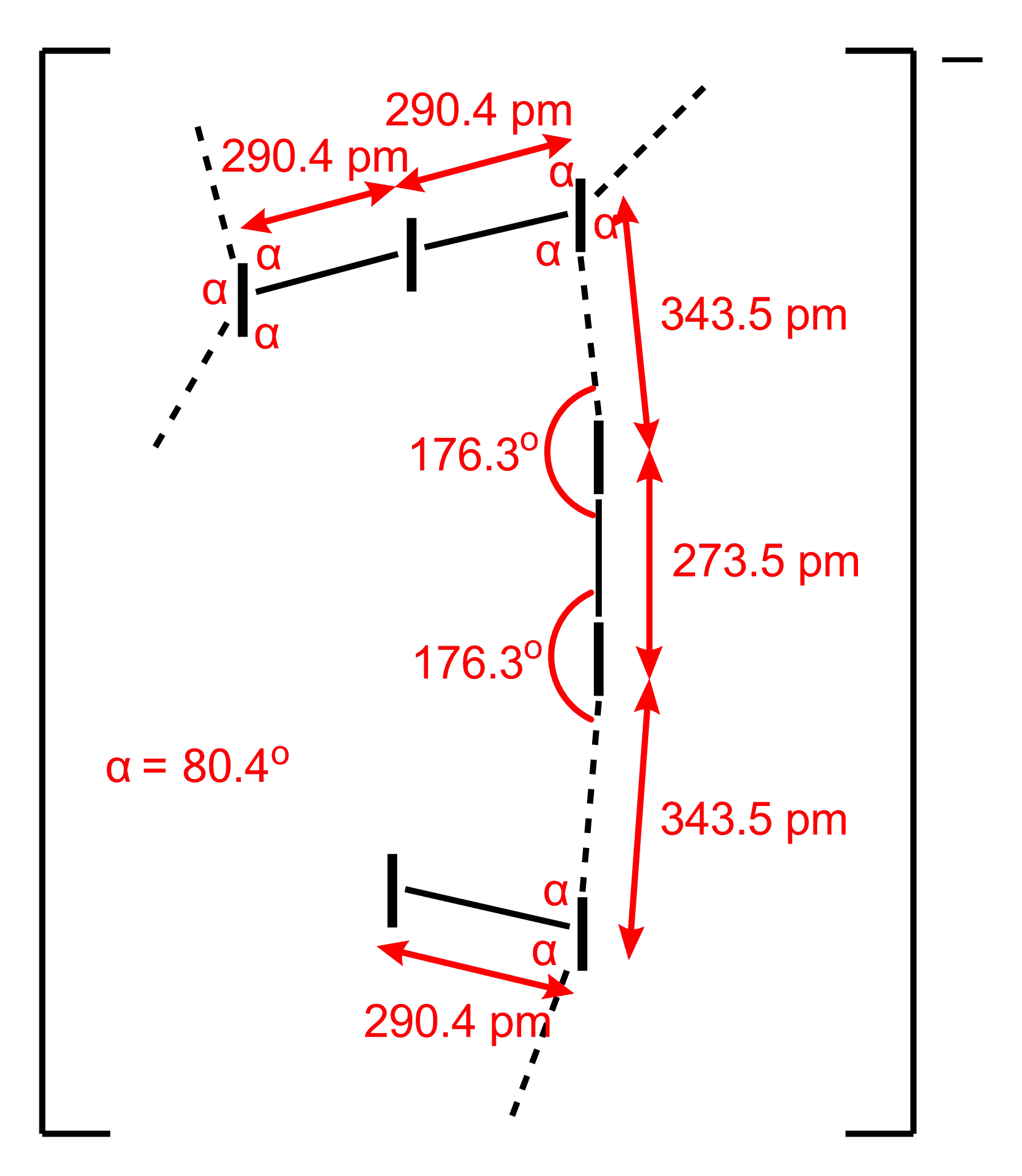 structure of I7- anion